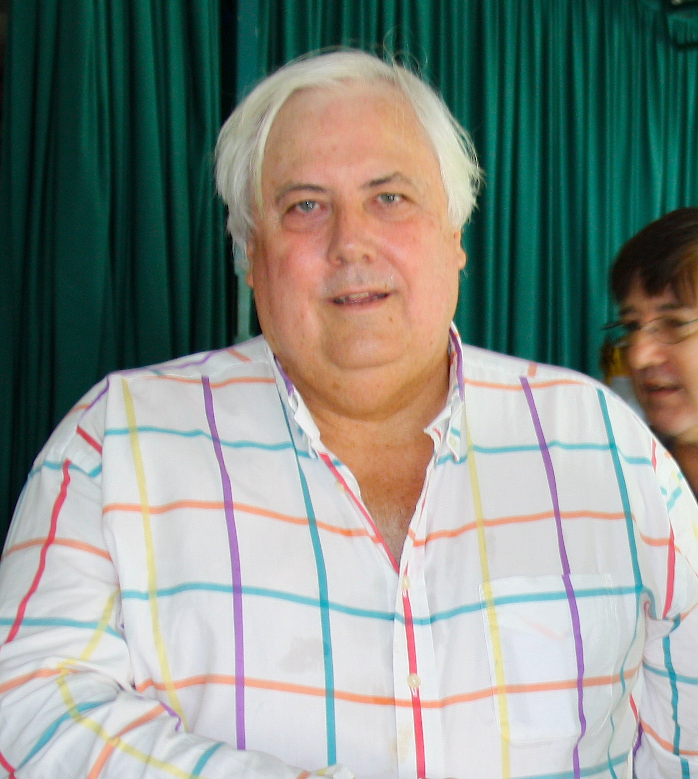 Clive Palmer (businessman) Clive taking time to meet a volunteer that came in to help out with his Christmas Charity Lunch for disadvantaged families. Volunteer's is Ben MacDonald and he is pretty happy to meet Clive let alone shake hands and get a photo of it.